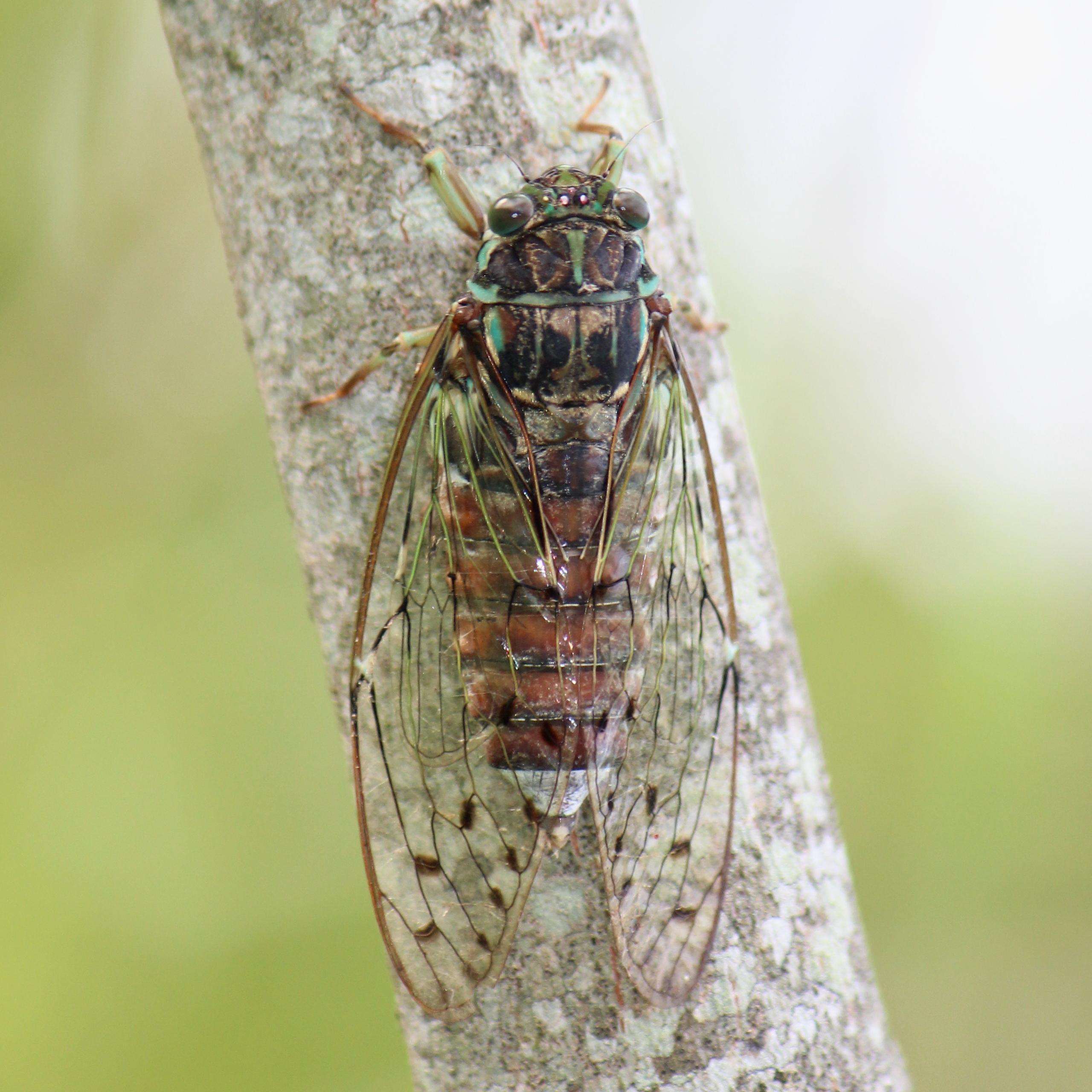 Male of Tanna japonensis in Mount Ibuki, Japan.